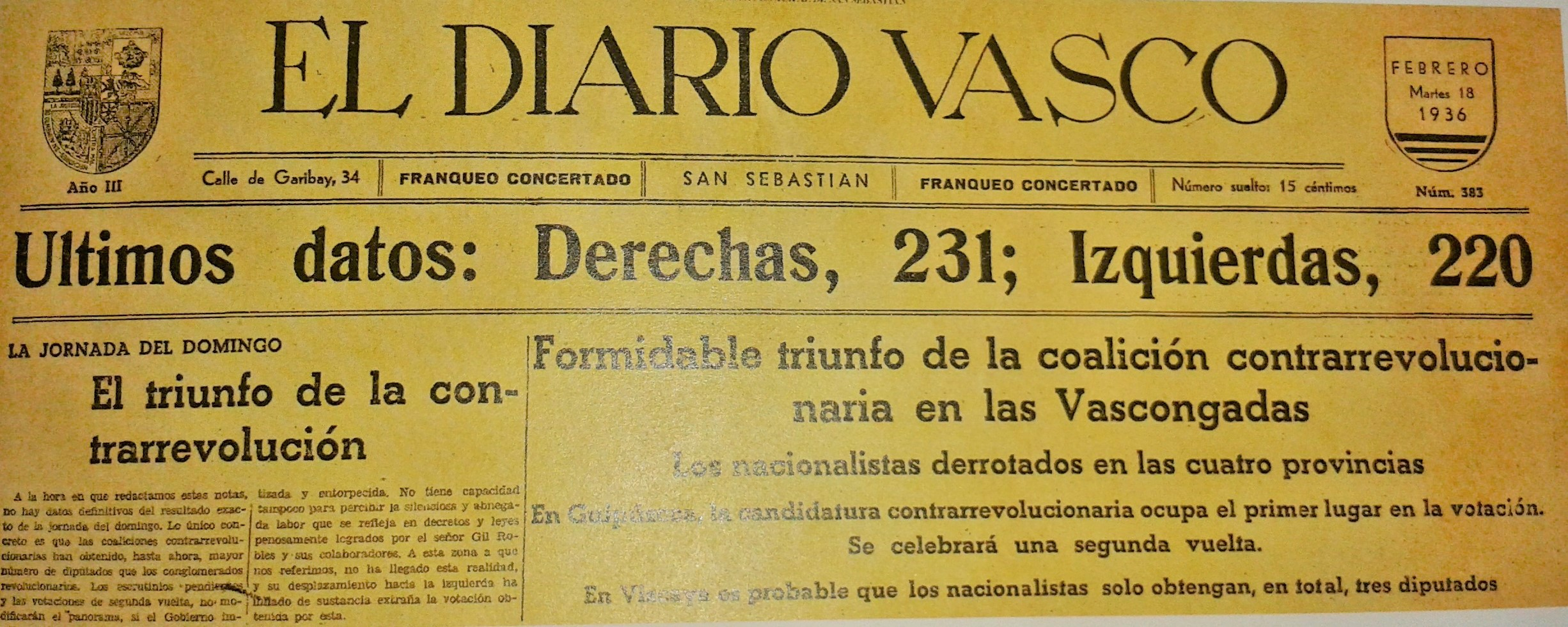 Front page of El Diario Vasco daily (partial view), 1936